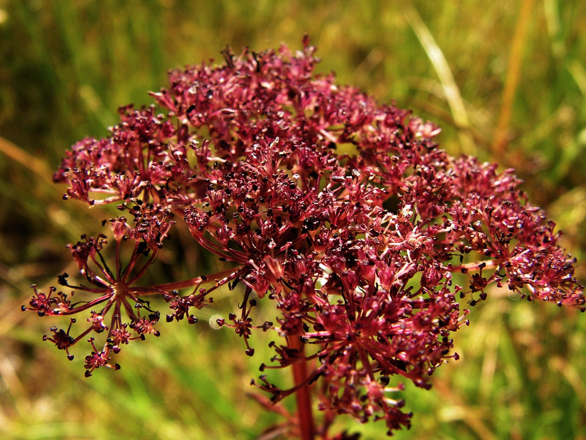 Selinum carvifolia (?). Moscow region, Russia.